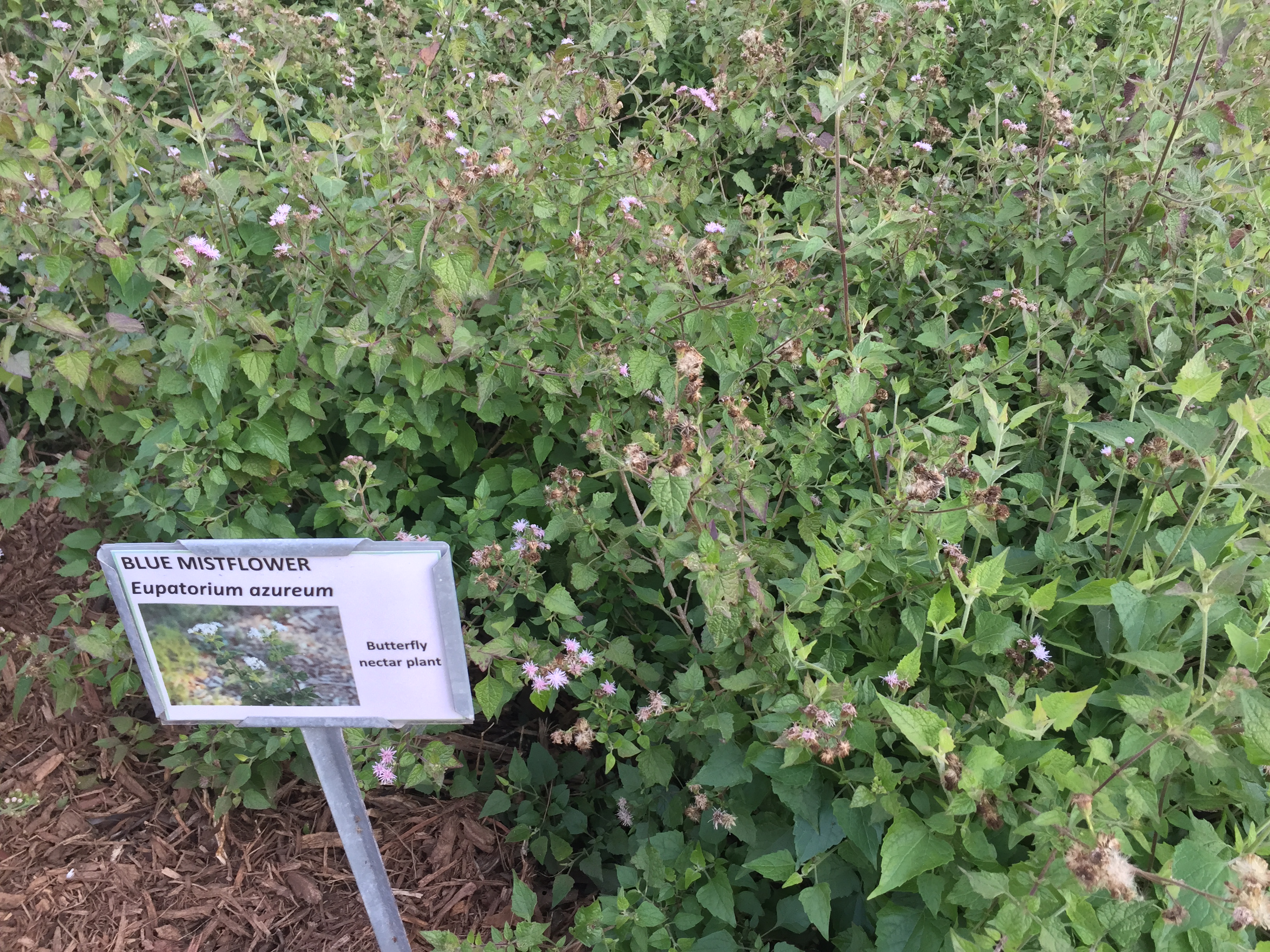 Blue Mistflower (Eupatoreum Azureum)